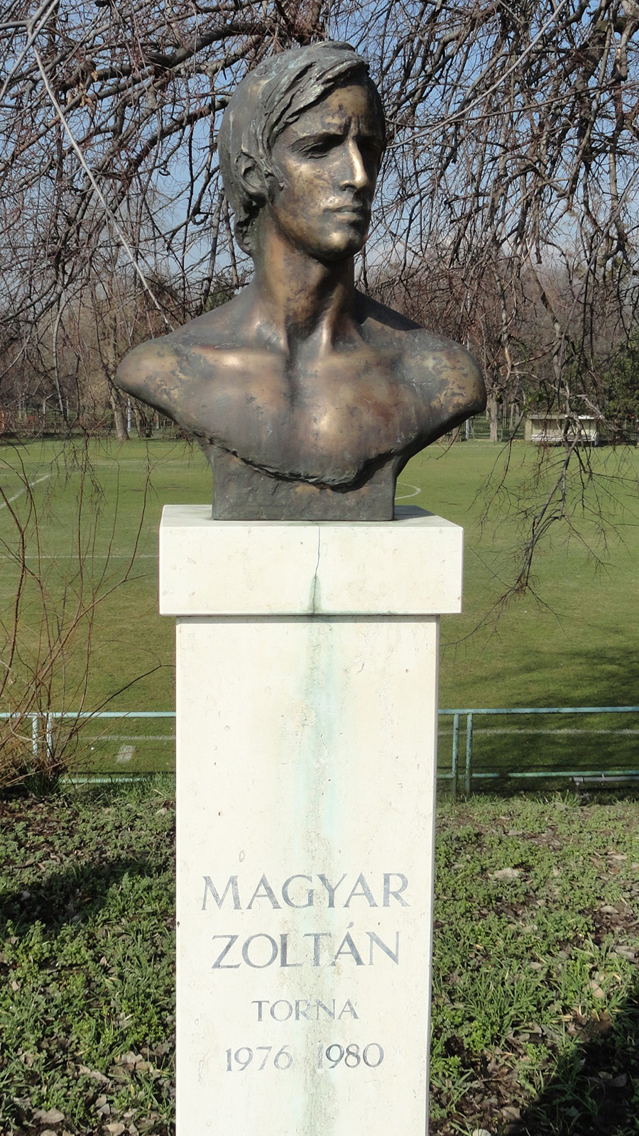 Zoltán Magyar, hungarian gymnast. 1976, 1980 Summer Olympics - Gold Medal Winner